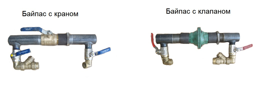 Bypass.